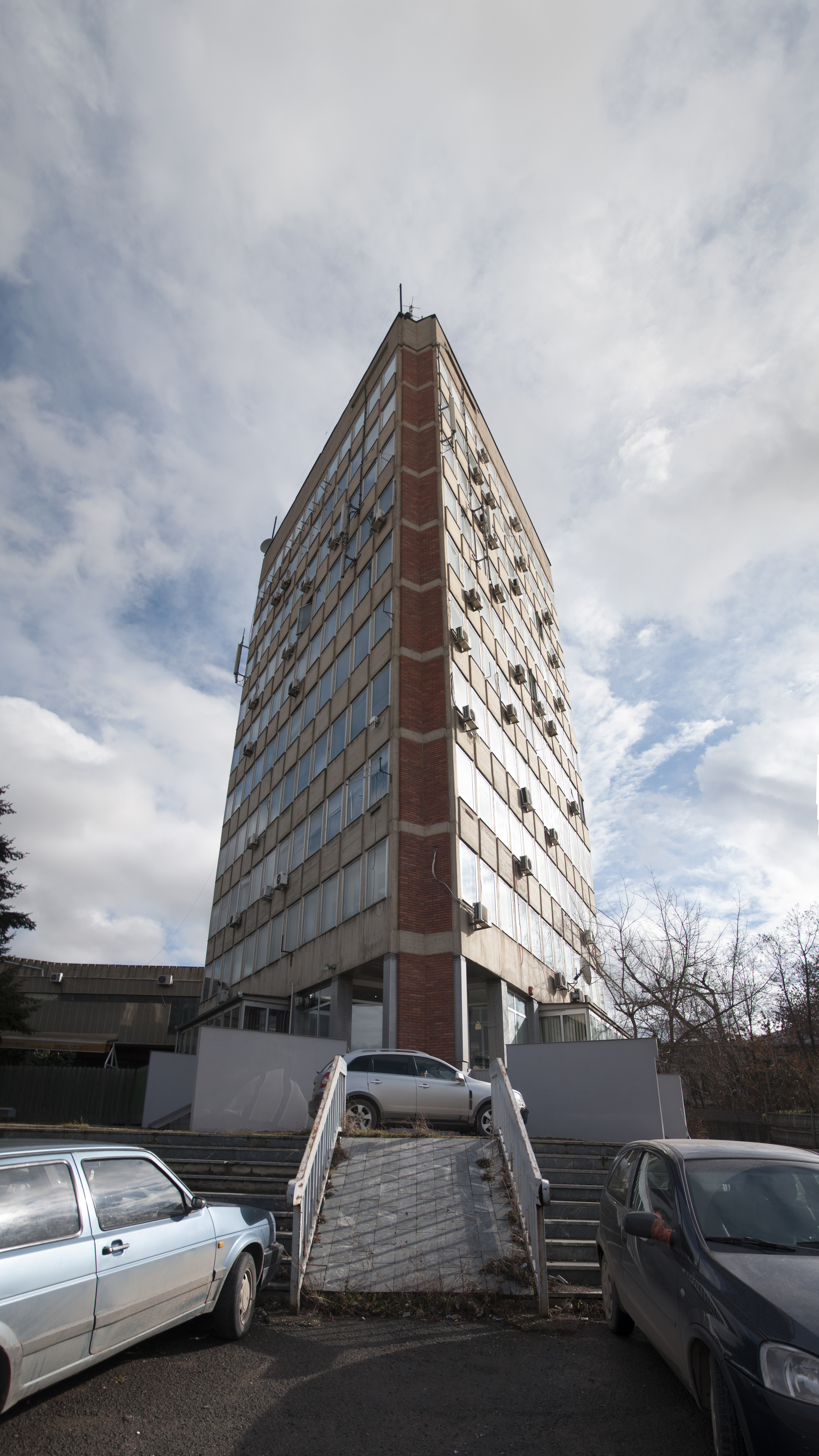 Post and Telecom of Kosovo Prishtina Also Known as Lepa Brena [The Serbian Marilyn Monroe]